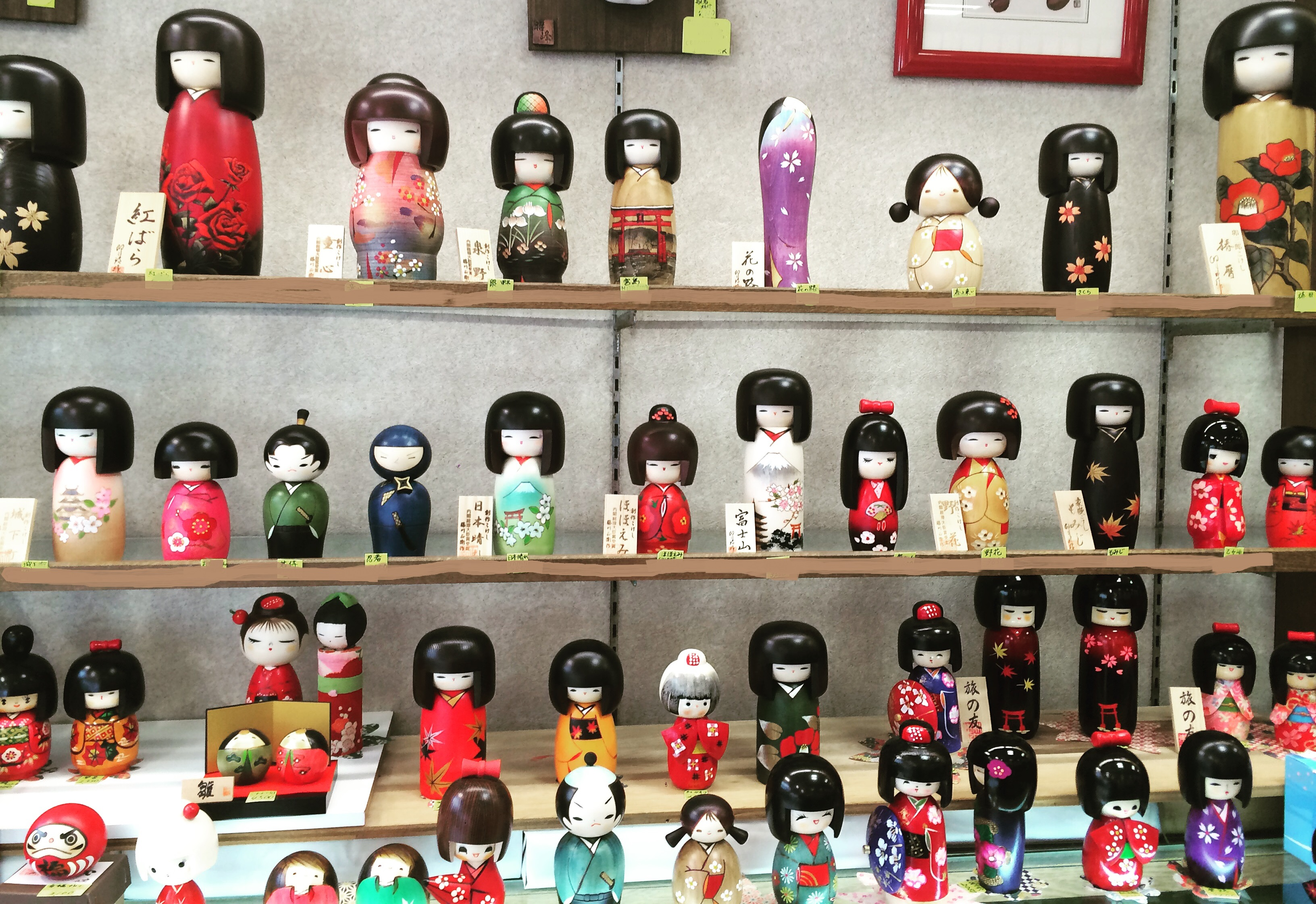 a display of modern Kokeshi dolls in Japan